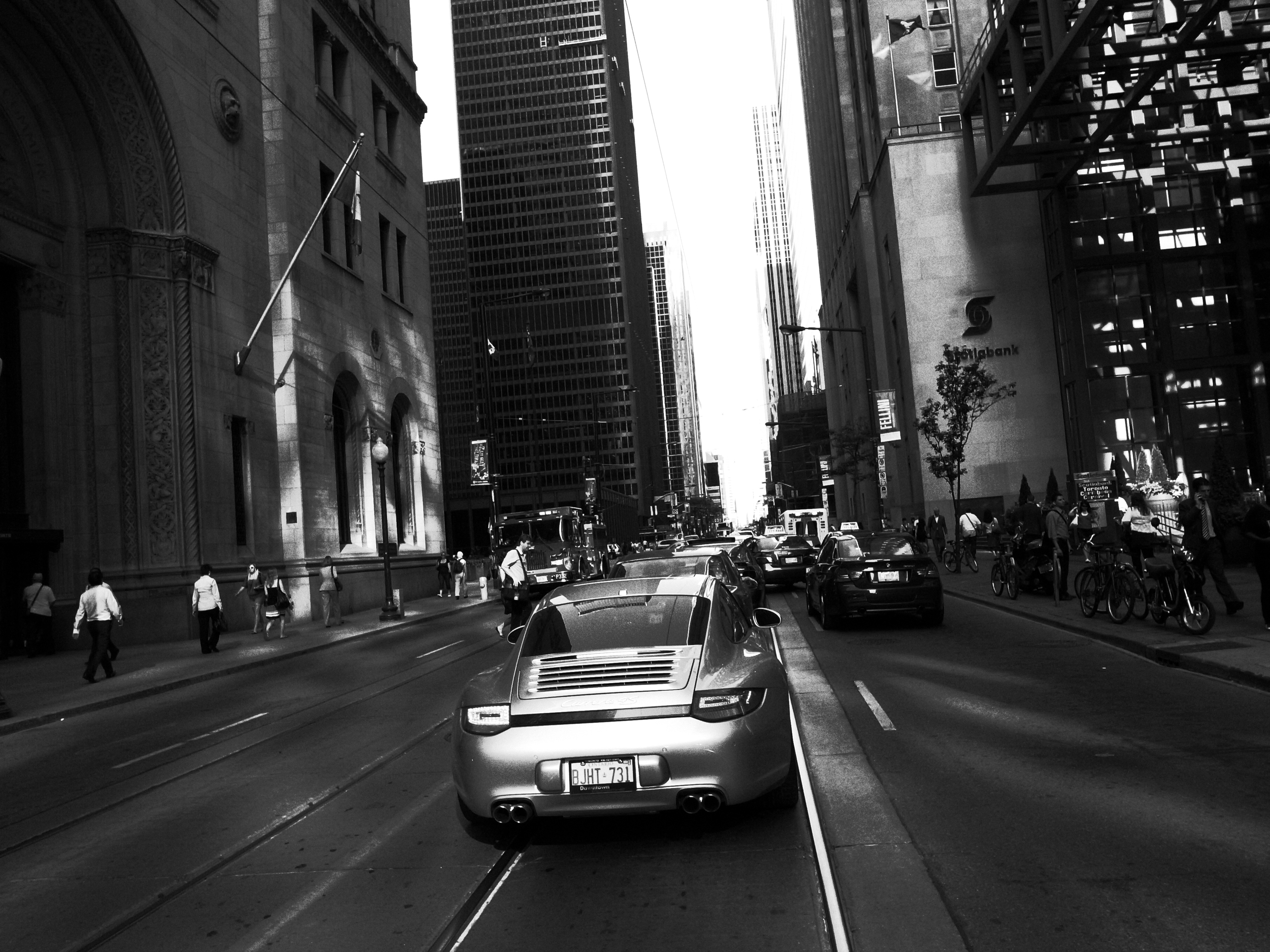 Porsche 997 Carrera 4S on Toronto's King Street (West) near the Scotiabank (Scotia Plaza).